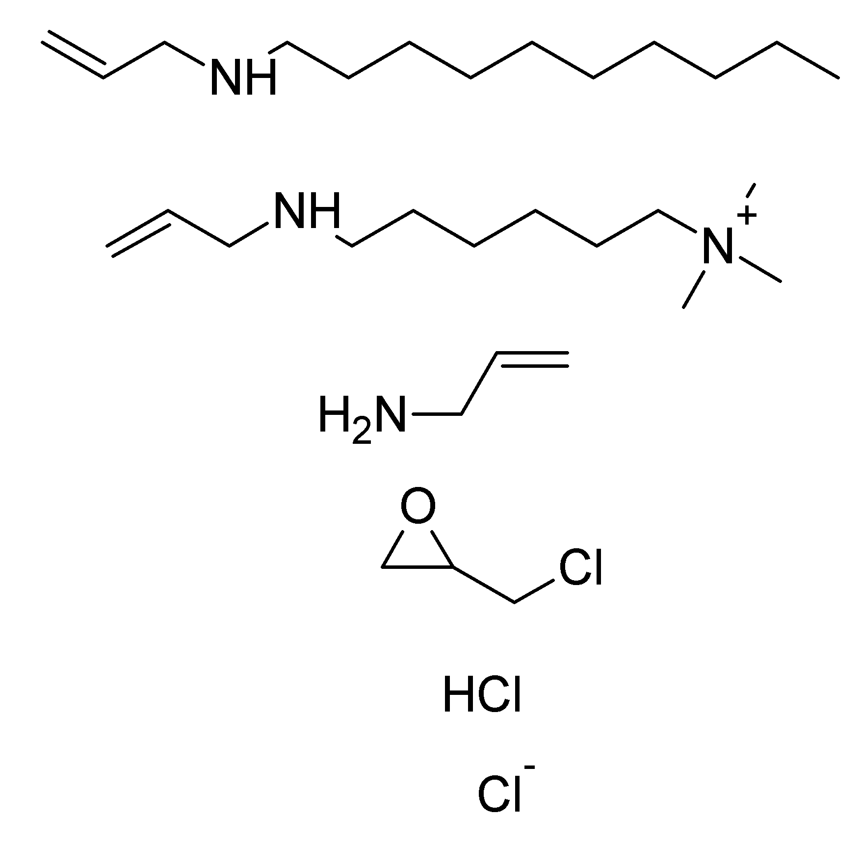 The compounds which constitute the polymer Colesevelam